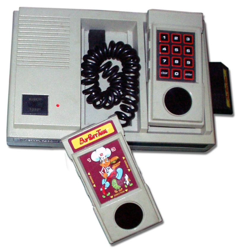 Intellivision II featuring the game BurgerTime. Also shown is the voice synthesis module.